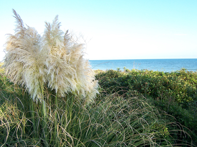 Sea oats (or perhaps some Cortaderia species?) on Atlantic Beach, NC. Taken by Carson Maynard, 04 September 2006.